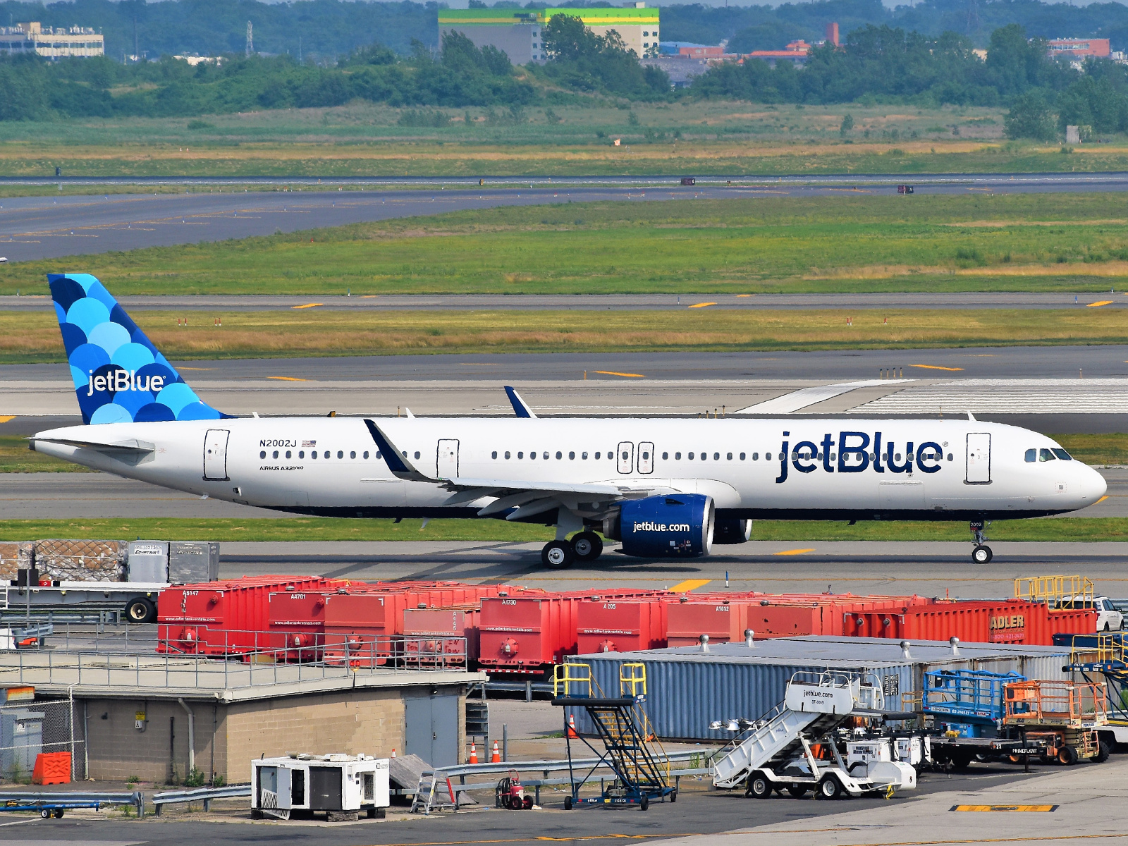 On delivery, JetBlue Airways' first Airbus A321neo is travelling through JFK Airport en route to Lake City